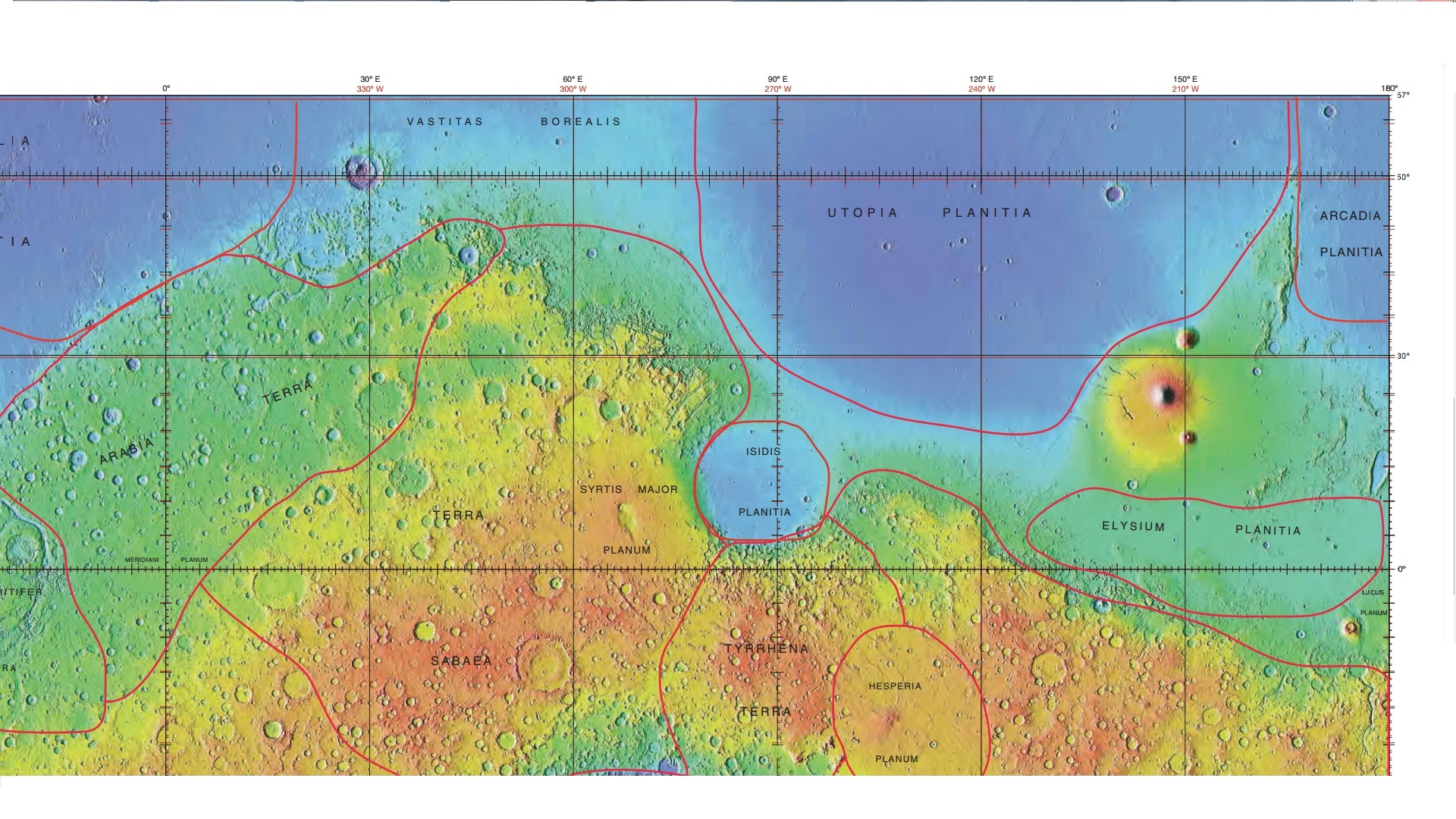 MOLA map showing boundaries for Utopia and other regions